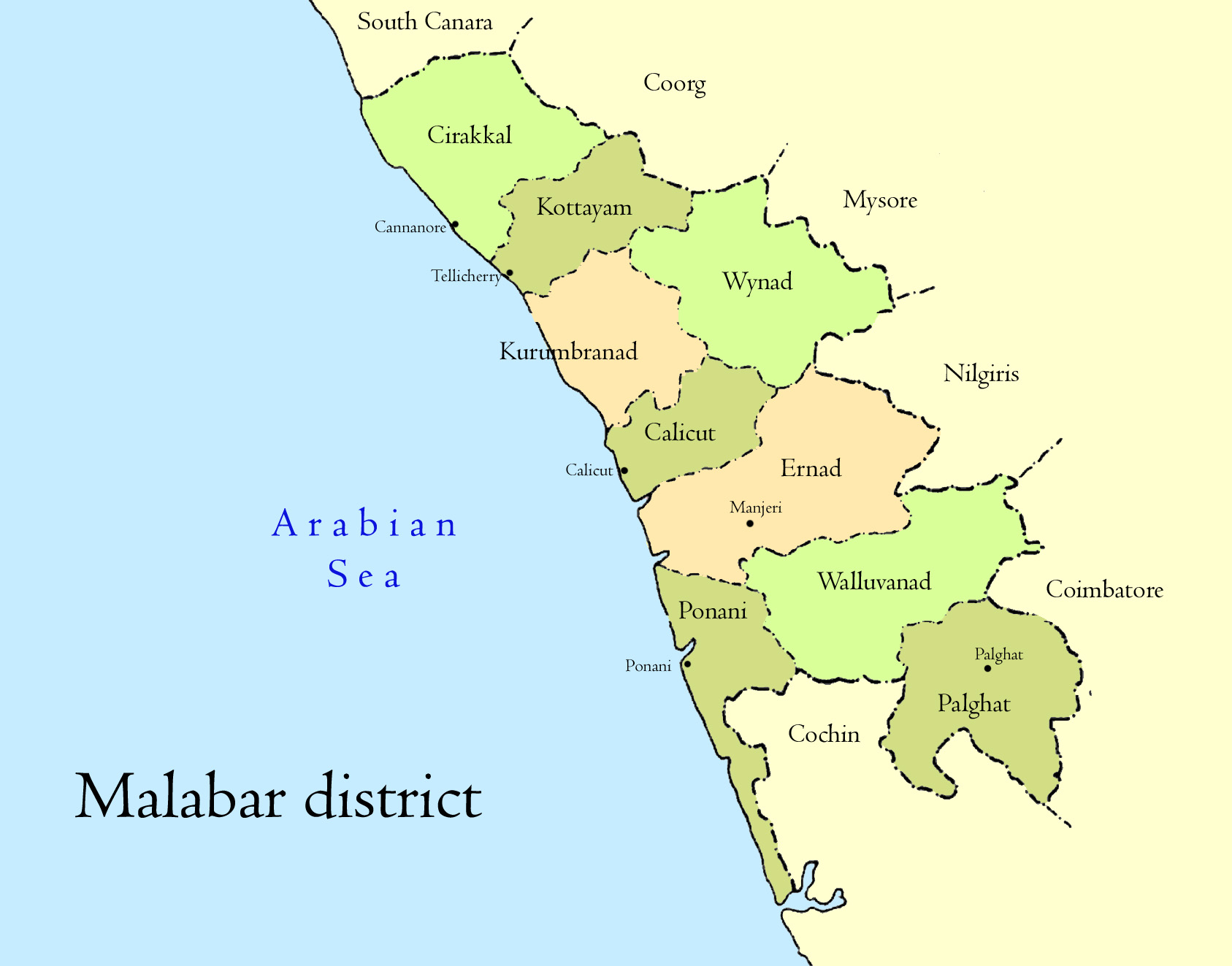 Malabar district Map